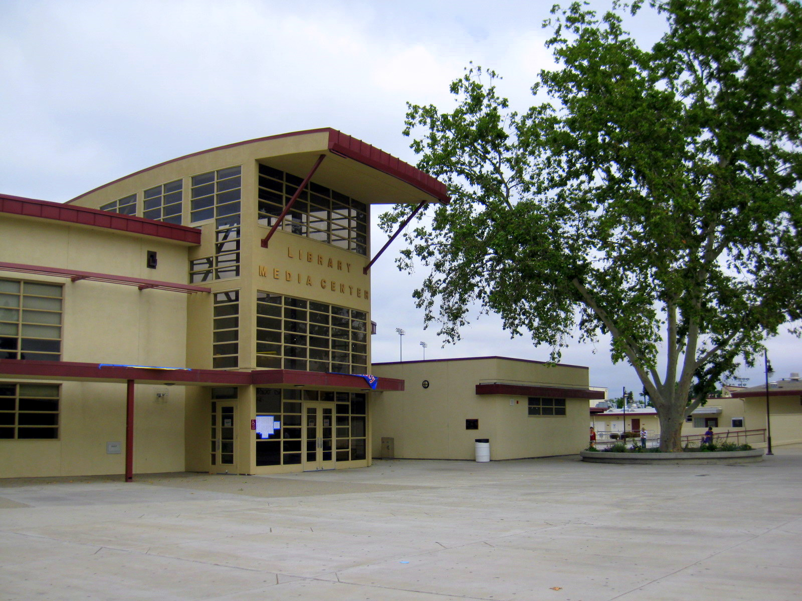 Center of Amador Valley Campus, featuring Library and Media Center